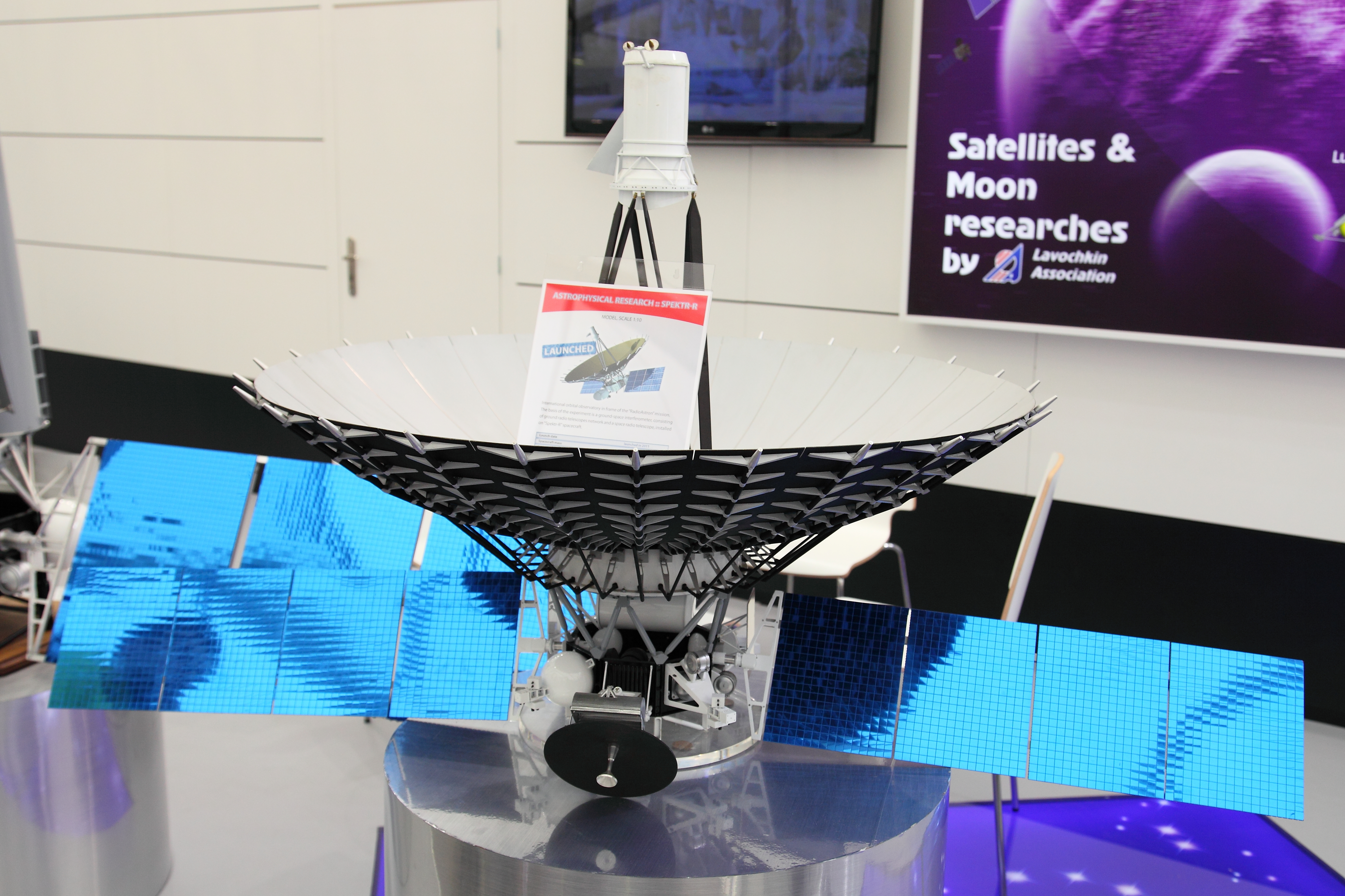 ILA Berlin Air Show 2012; Astrophysical Research: Spektr-R; model, scale 1:10; International orbital observatory in frame of the "RadioAstron" mission. The basis of the experiment is a ground-space interferometer, sonsisting of ground radio telescopes network and a space radio telescope, installed on "Spektr-R" spacecraft, launches in 2011; spacecraft mass - 3800 kg payload mass - 2600 kg payload composition - space radio telescope platform - "Navigator" mission lifetime - 3 years electrical power for the payload - 1150 W launch vehicles - LV "Zenit", "Fregat-SB" upper stage operational orbit parameters - high elliptical orbit (500 x 36000 km , 51 deg) Federal State Unitary Enterprise Lavochkin Association